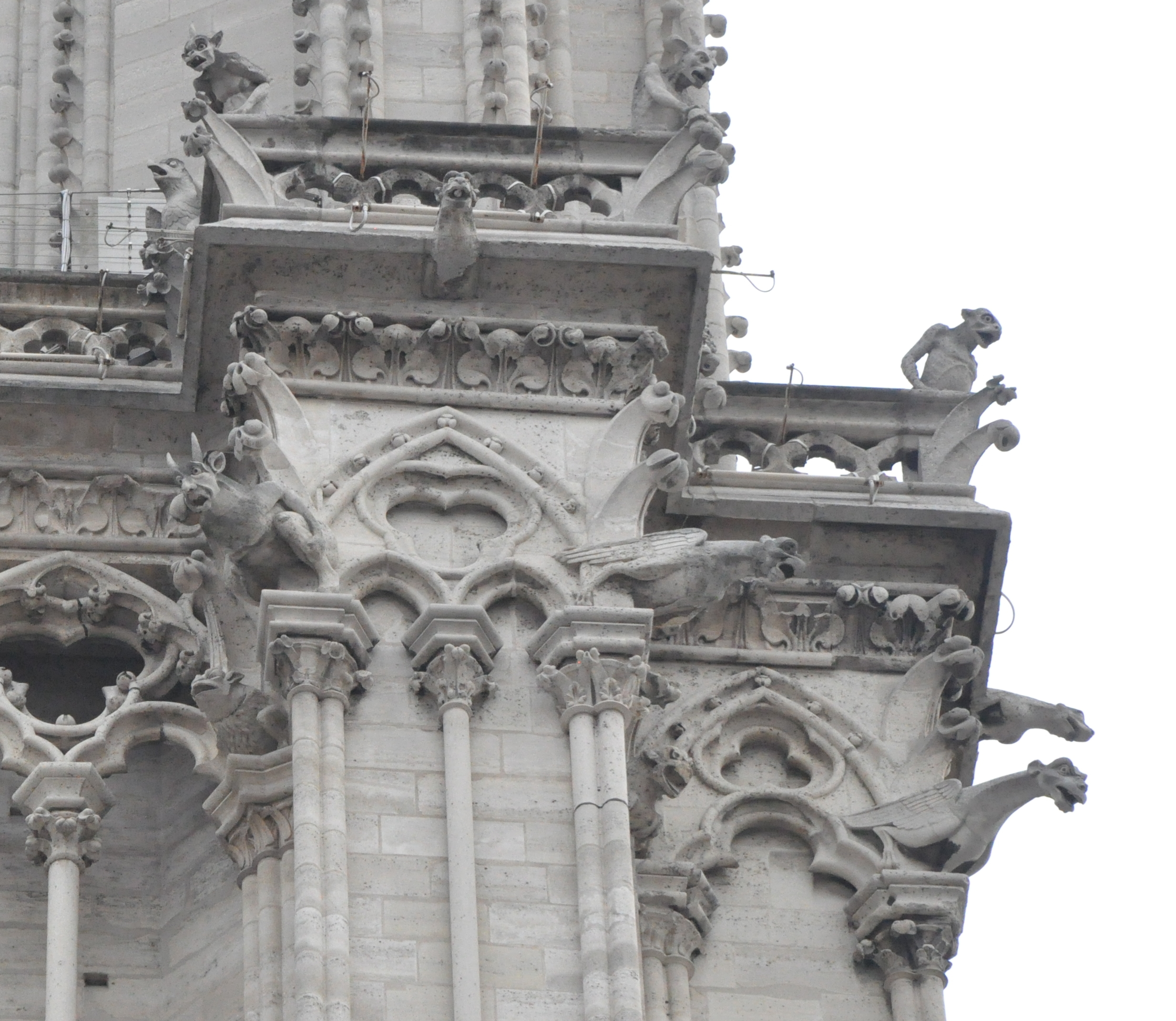 Cathedral Notre-Dame de Paris (France), Gargoyles in West facade, southside